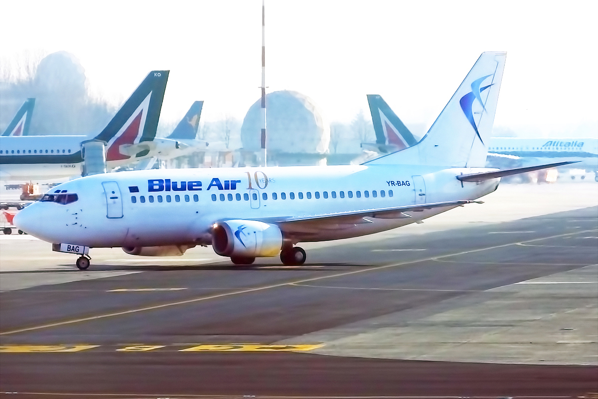 Blue Air, YR-BAG, Boeing 737-5L9